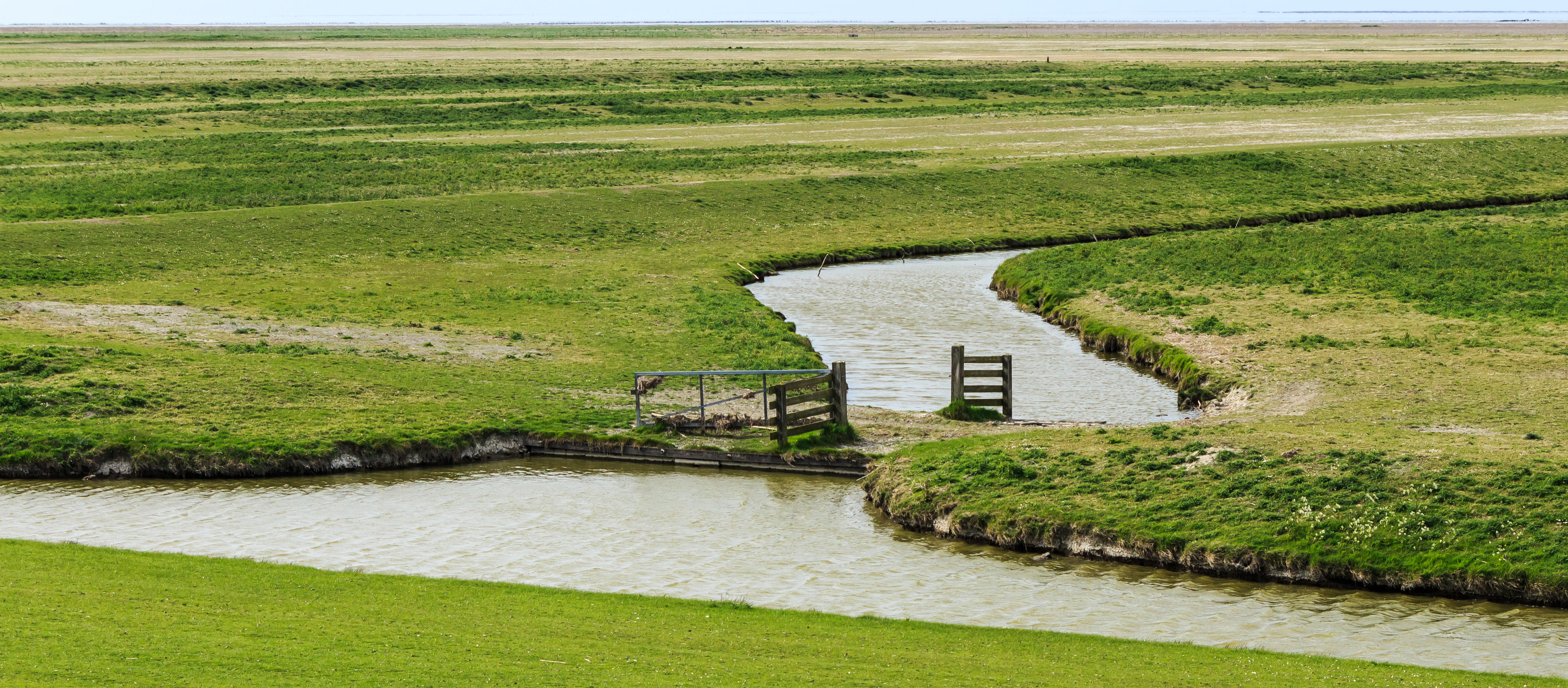 Water management at the bottom of the embankment. Location, Noarderleech.